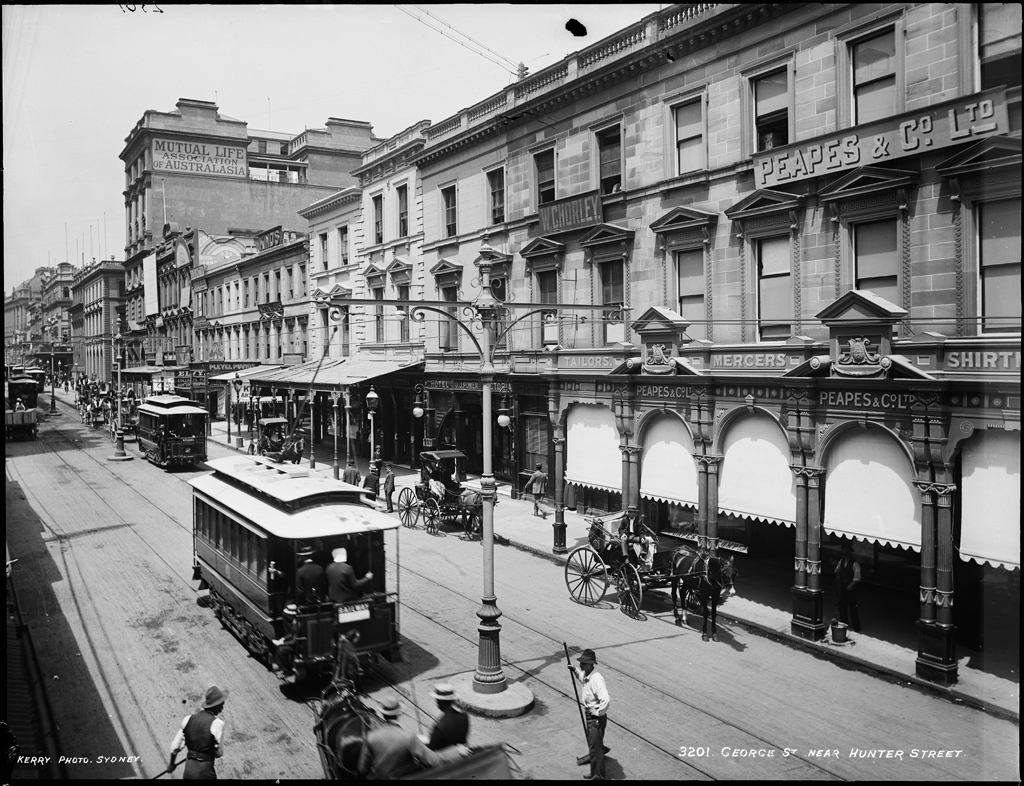 'Sydney City' Pictures from The Powerhouse Museum This files was posted to Flickr by The Powerhouse Museum (See their website for further information). Many thanks to the Powerhouse Museum for helping release this wonderful material. This tag does not indicate the copyright status of the attached work. A normal copyright tag is still required. See Commons:Licensing for more information.